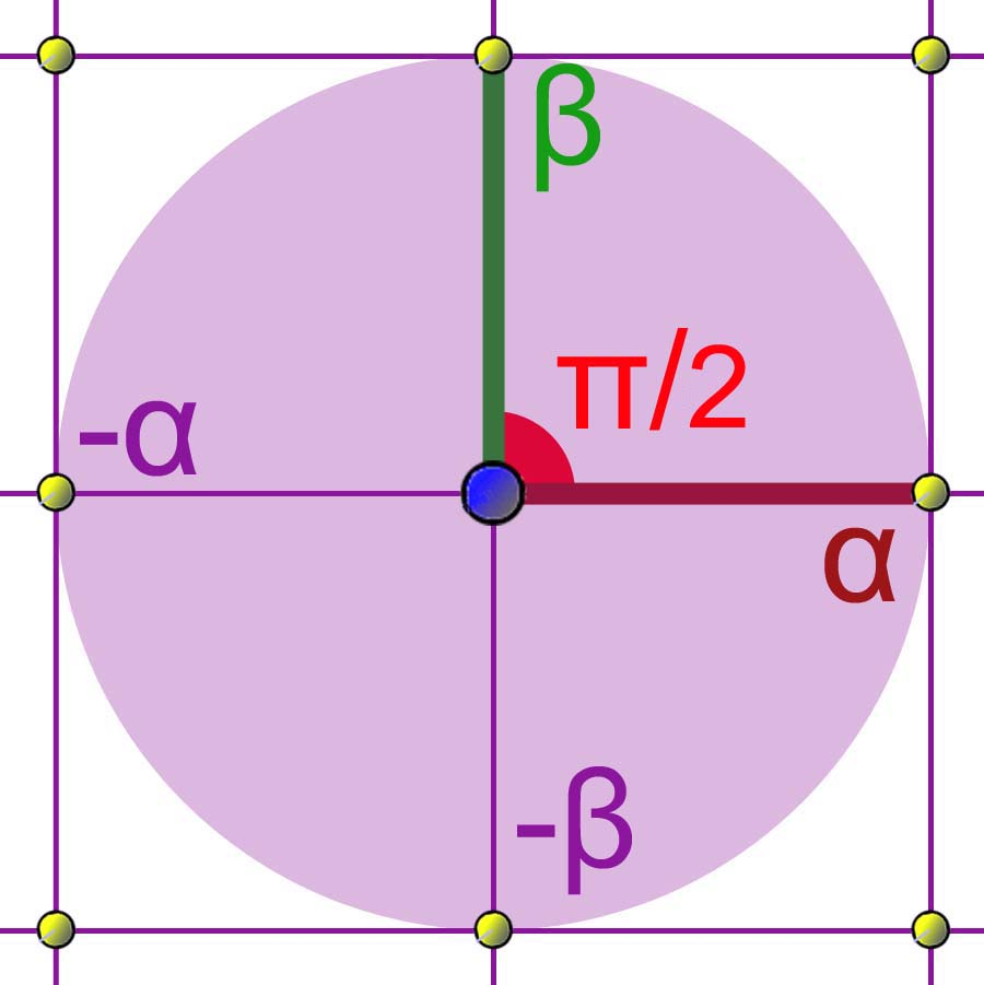 Exemple of a lattice, dimension 2 and tetragonal symetry